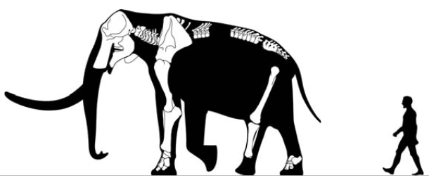 Mammuthus M. subplanifrons KNM KP-385 & KNM KP-397 sex male? age 50 size group – humerus 1162* femur 1360 pelvis – 368 cm • ~9 t All the skeletal restorations are presented on the same scale (1/100). The human figure is 180 cm tall. Mass estimates are in kilograms for small proboscideans and in tonnes for the larger forms. Shoulder heights are in cm. The age (years), sex, size group, femur and humerus greatest length (mm) (in the case of * it refers to the humerus articular length in mm) and pelvis breadth (mm) are included.